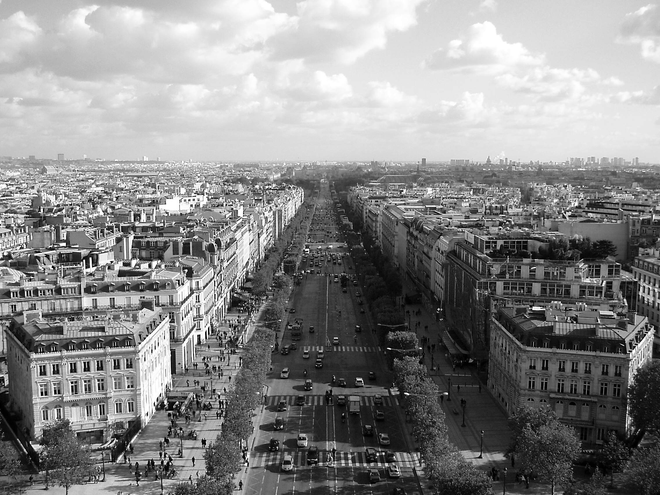 View from Arc de Triomphe